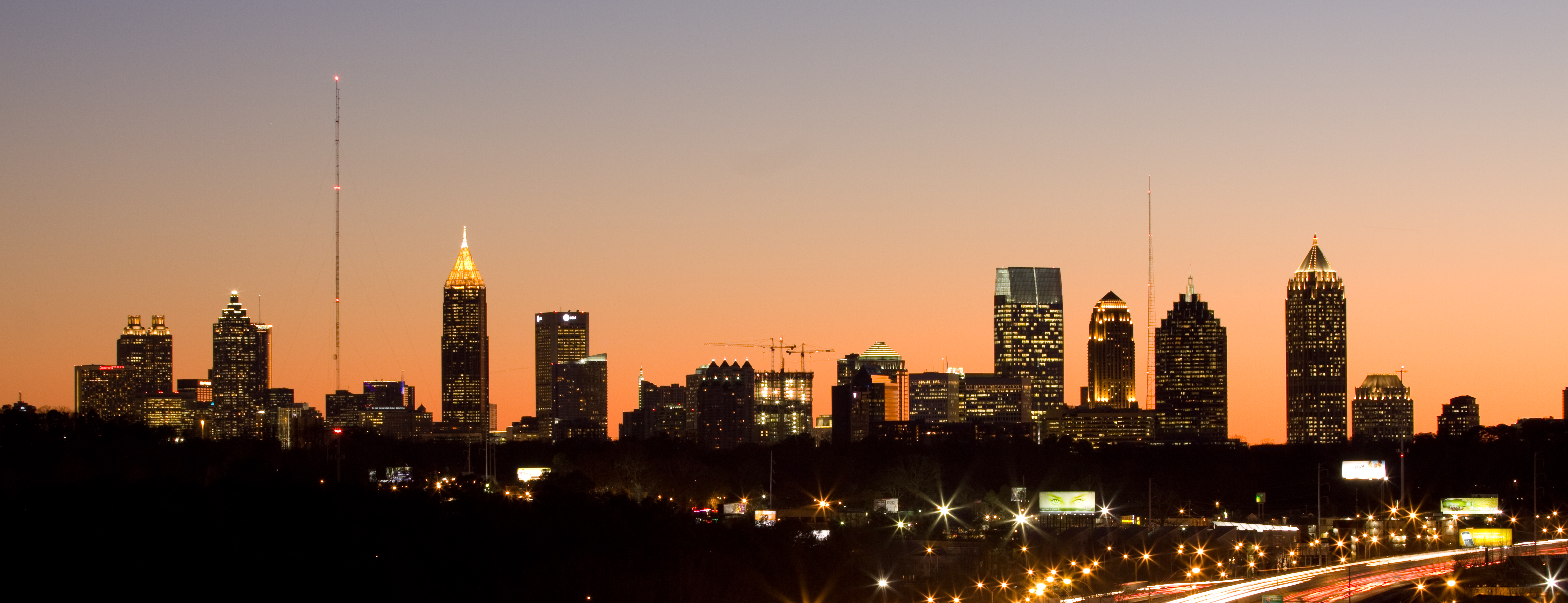 City of Atlanta, Georgia at Sunset